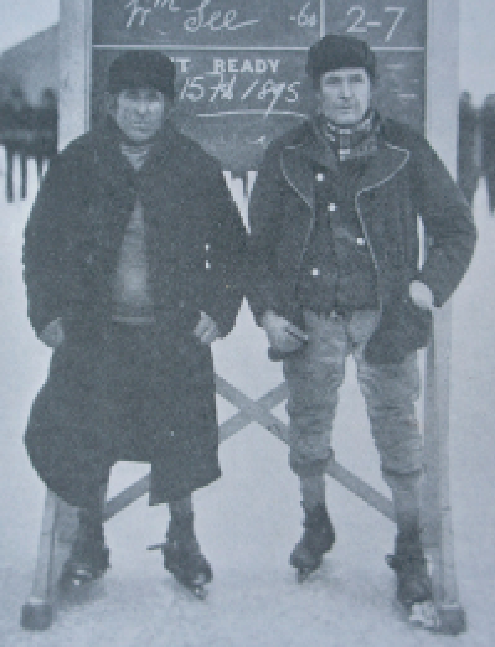 See and Smart, two famous fenskaters. Original uploader was User:southdevonian at the english wikipedia.